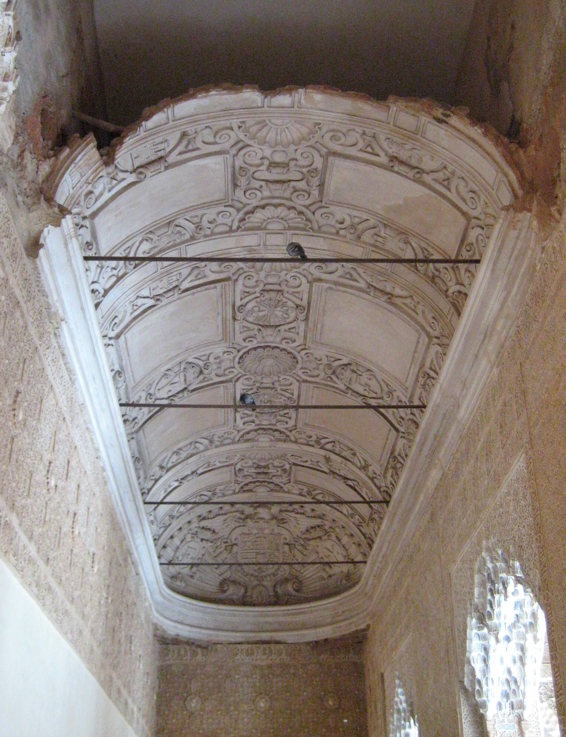 Ruined barrel vault in Alhambra